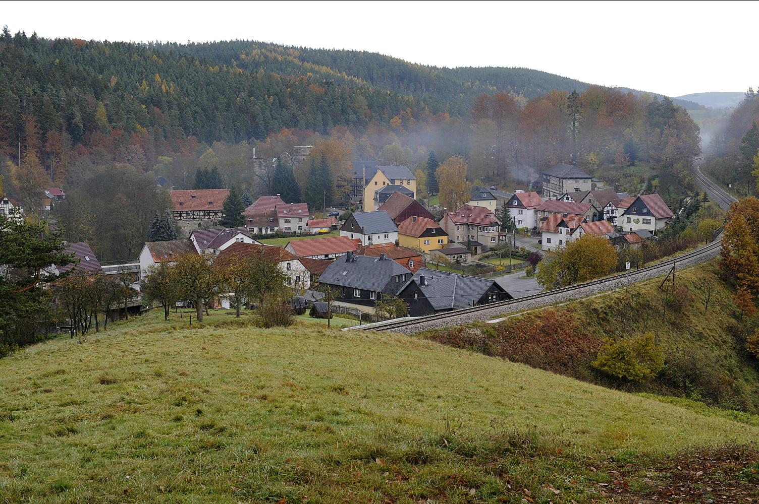 View on Paulinzella, Rottenbach, Germany